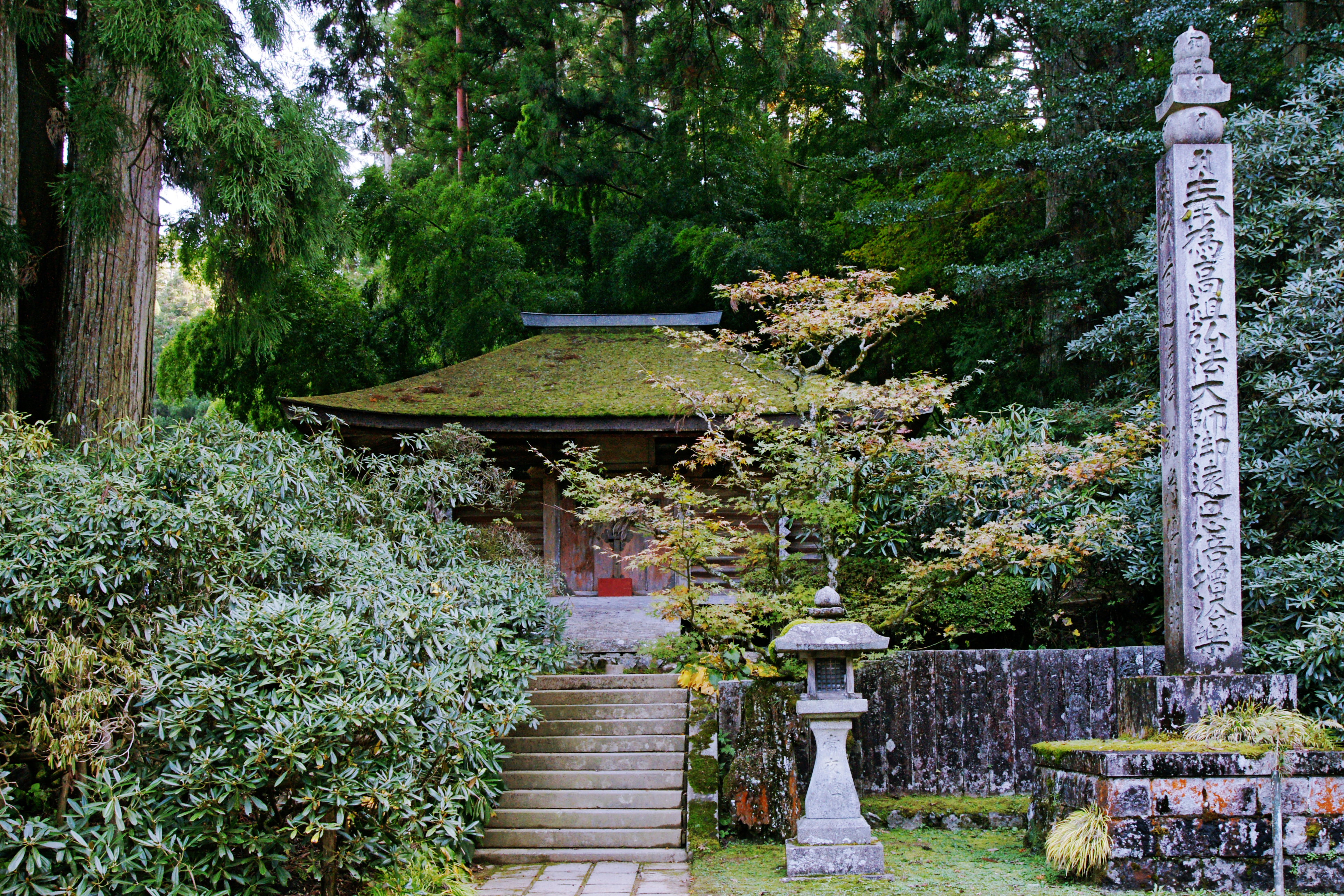 Kongosanmaiin in Mount Kōya, Wakayama prefecture, Japan.